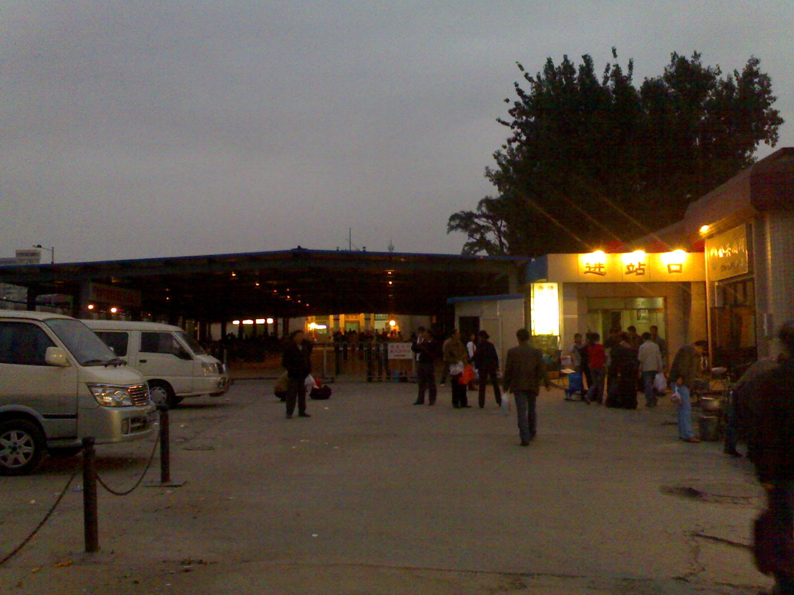 Taken at 10:37 AM on October 14, 2006 - cameraphone upload by ShoZu